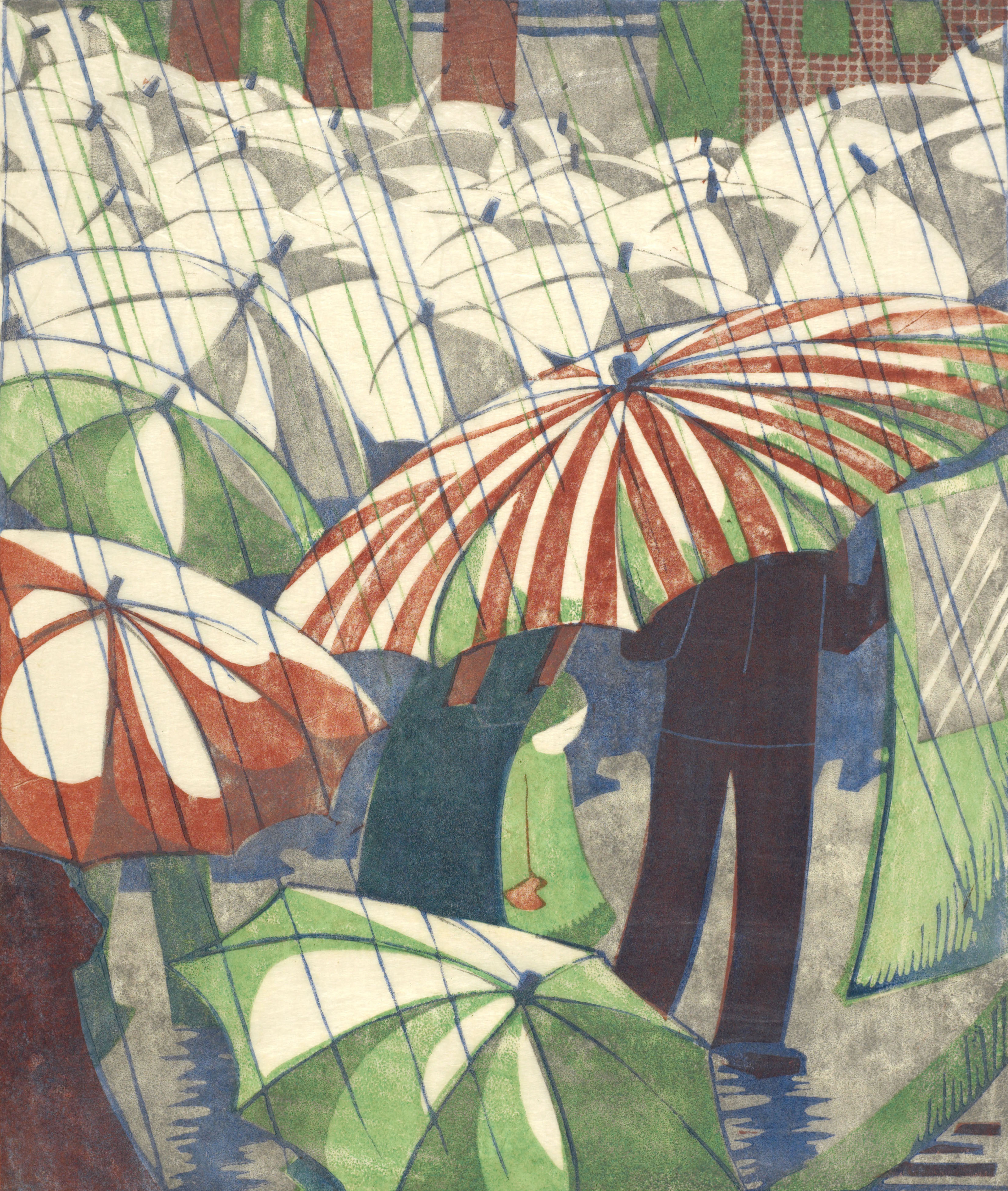 Wet afternoon, 1930, by Ethel Spowers. Gift of Rex Nan Kivell, 1953. Te Papa (1953-0003-328)